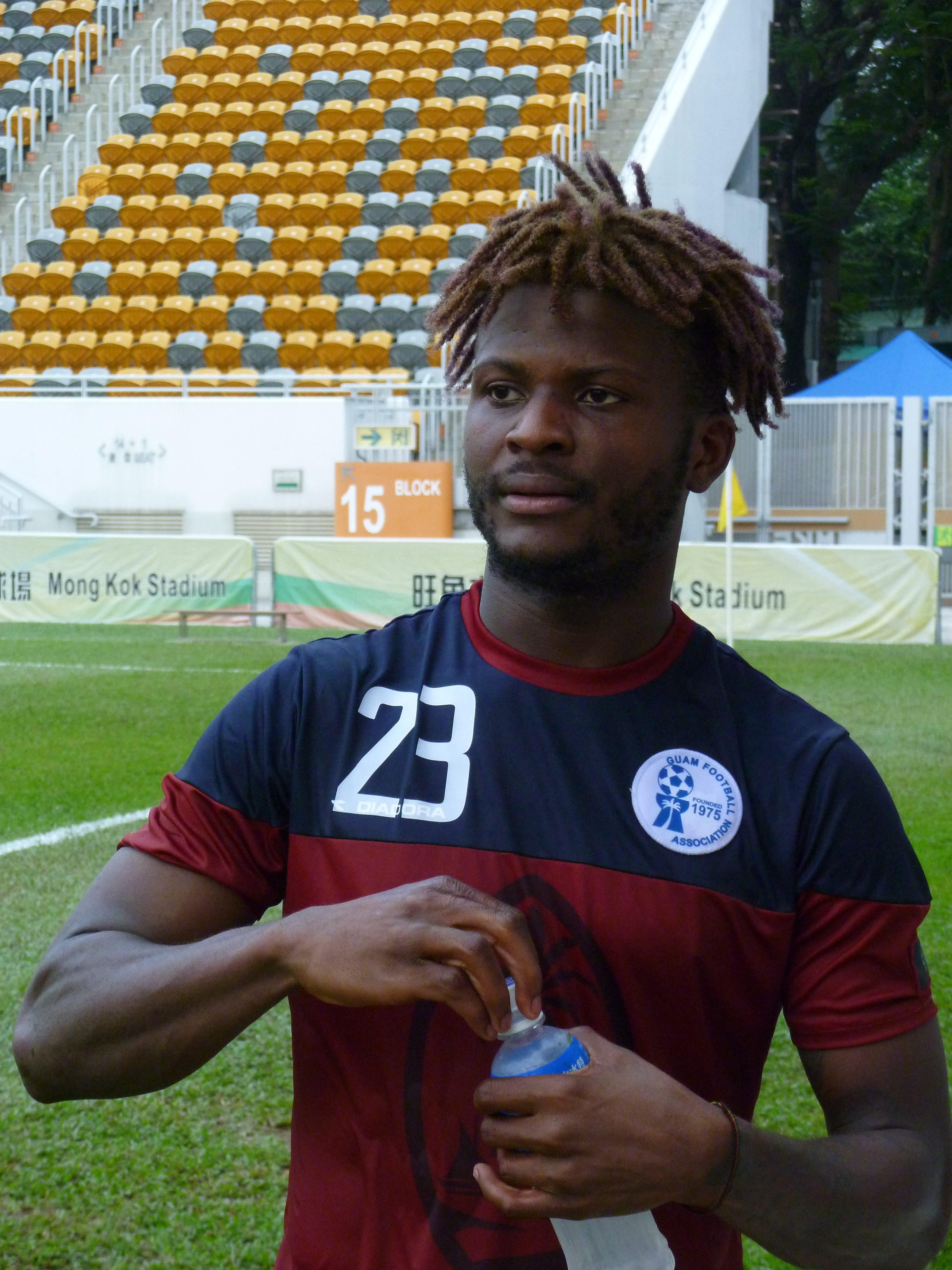 Shane Malcolm (12 Nov 2016, EAFF E-1 Football Championship 2017 Round 2, Taiwan vs Guam, Mongkok Stadium) 中文（香港）: 馬爾甘 (12 Nov 2016, EAFF東亞足球錦標賽2017第二圈, 台灣 vs 關島, 旺角大球場)